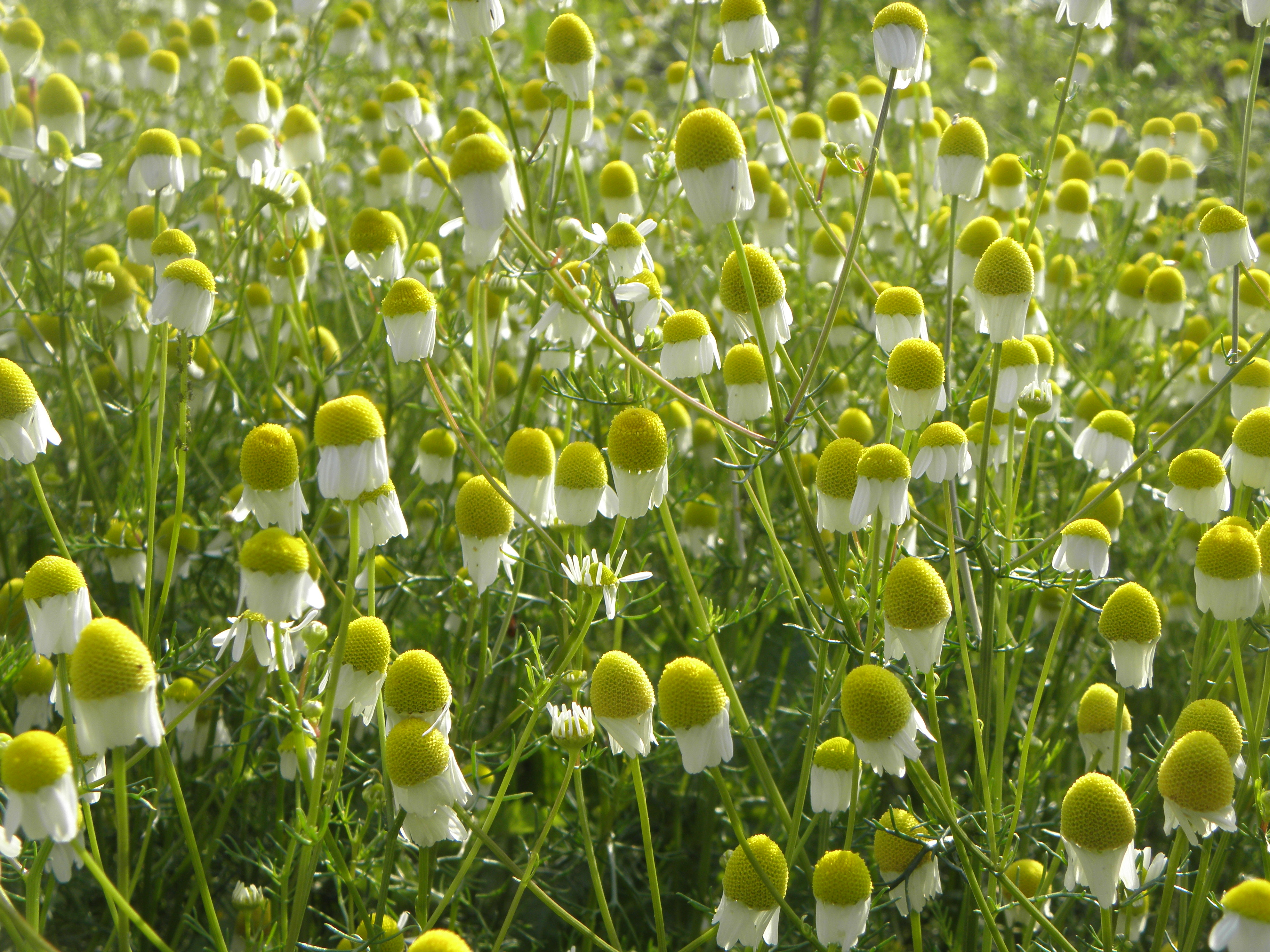 Chamomile, Matricaria recutita